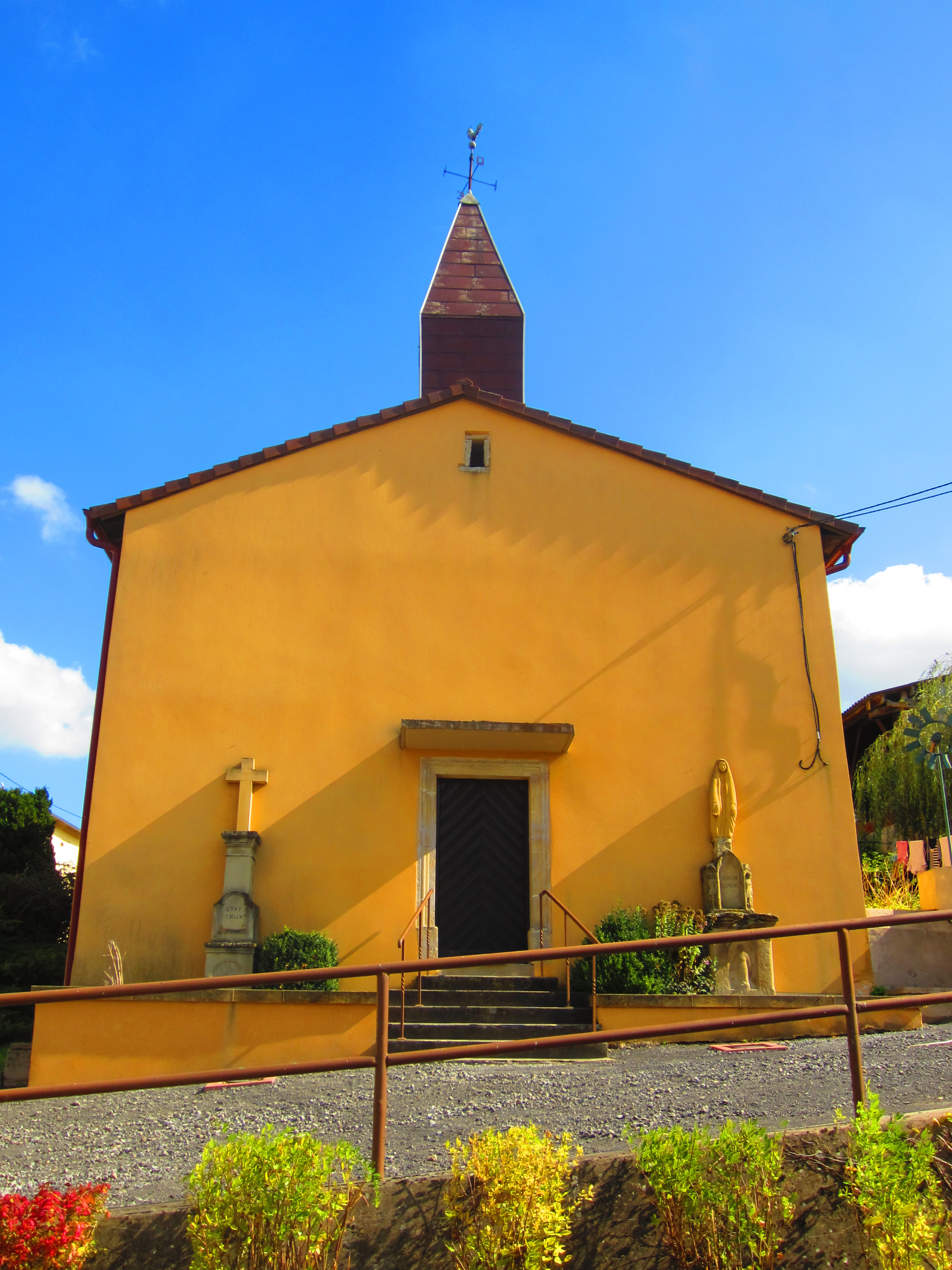 Ricrange chapel